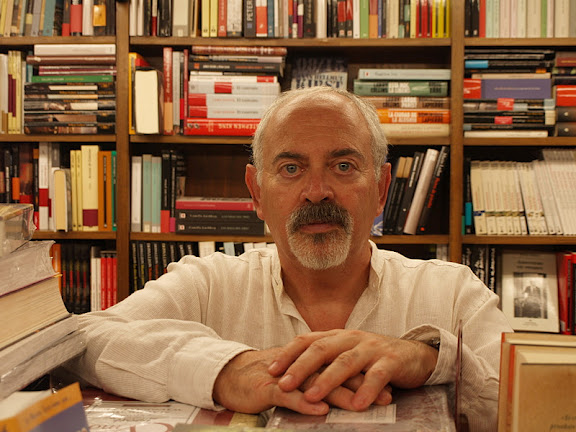 The writter Javier Bañares.